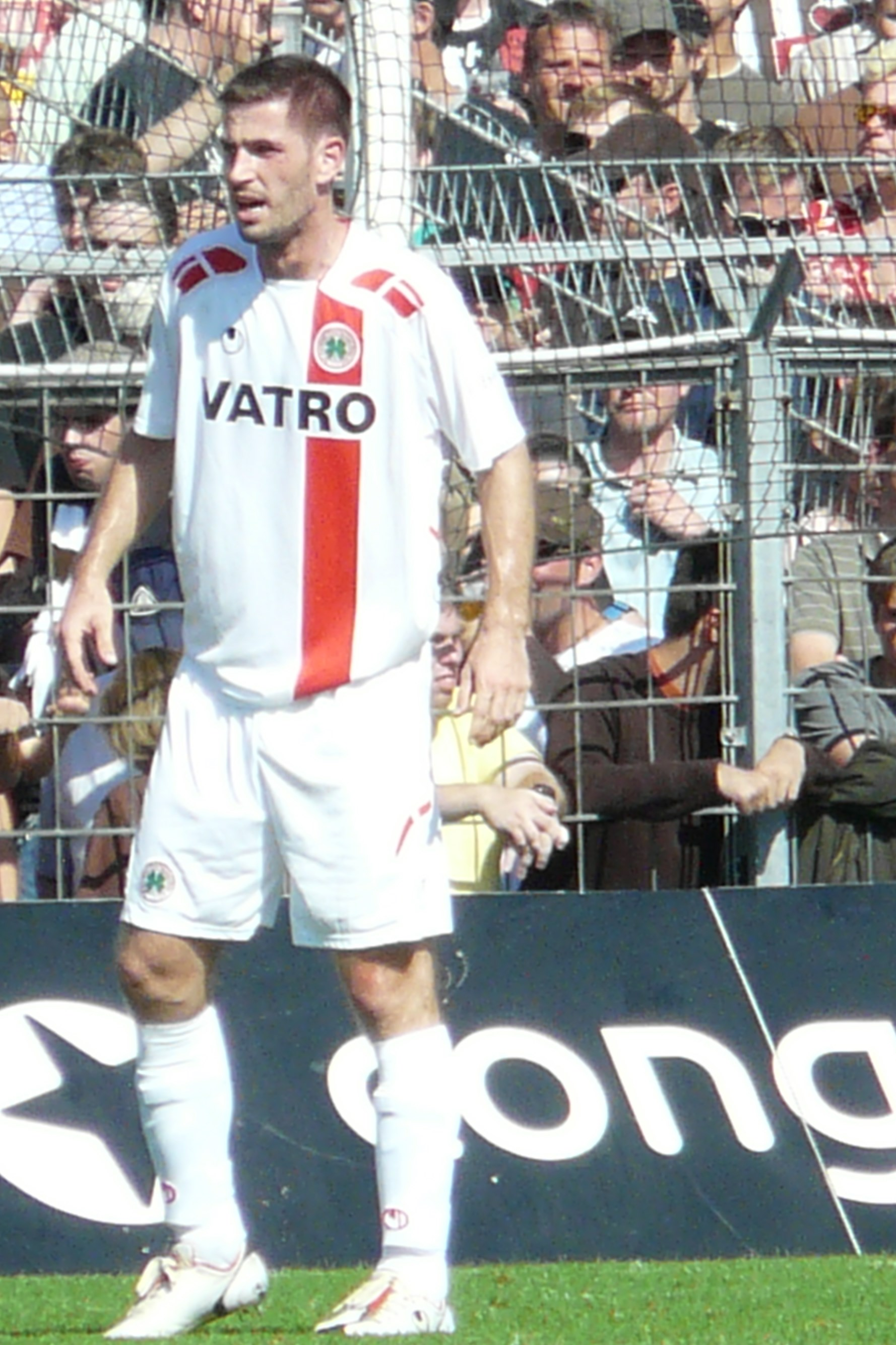 Thomas Schlieter as Player from Rot-Weiß Oberhausen